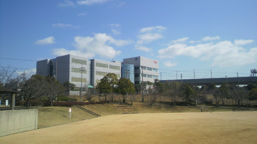 Toyota Automotive Engineering College of Kobe viewed from Gakuen-Higashimachi Park, located in Nishi-ku, Kobe, Hyogo, Japan.